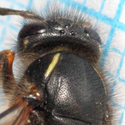 Saxon wasp Dolichovespula saxonica worker.